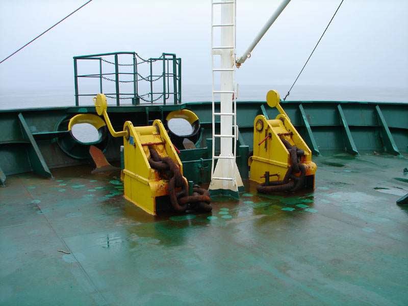 Chain blocks on the oil tanker Algarve